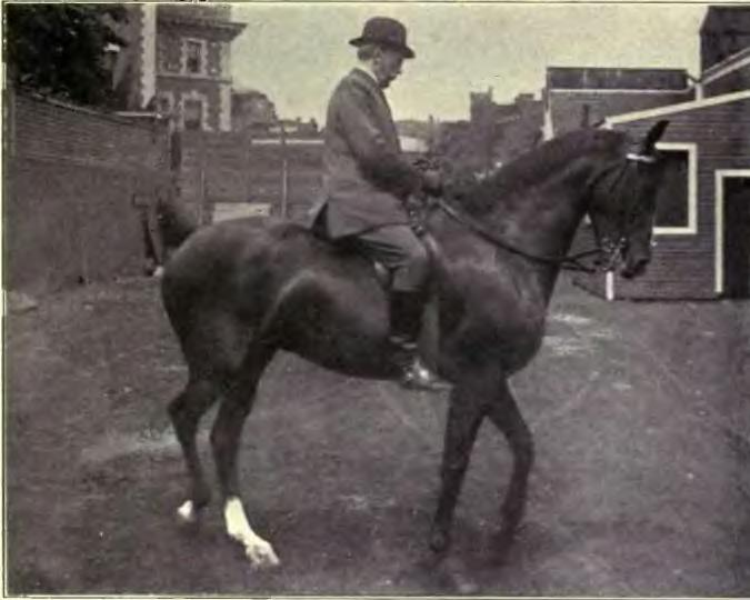 PIROUETTE FROM RIGHT TO LEFT. Illustrations from File:Equitation.djvu, see details; see too File:Equitation_images.djvu where the same images are bundled into a single djvu file